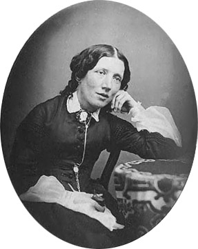 Image of Harriet Beecher Stowe (b. 1811-1896)